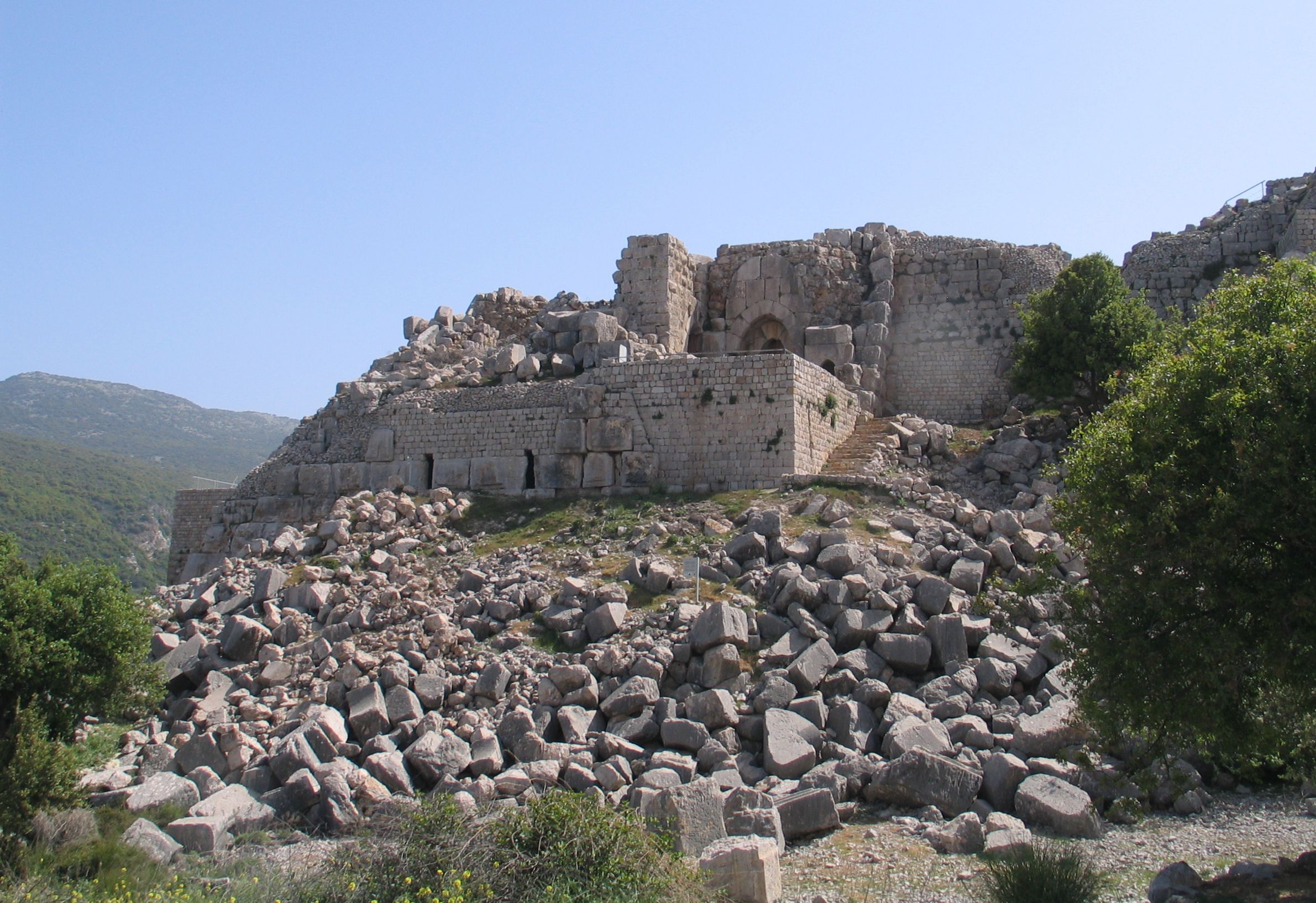 Nimrod fortress, northwestern gate tower, from the west.